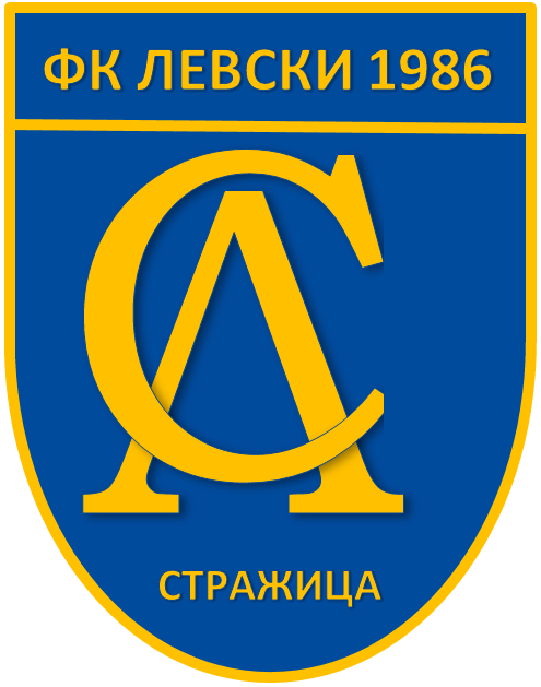 FCLevski1986Strazhitsa